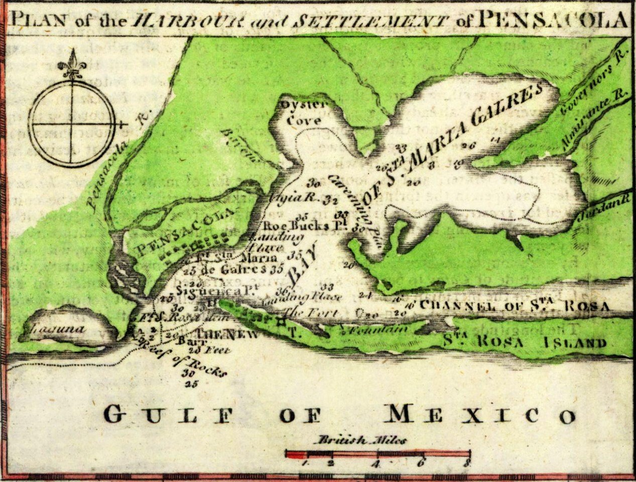 This is a map depicting the area around Pensacola in 1763. It contains notations relevant to a military action.